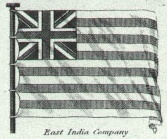 British East India Company flag plate in Rees's Cyclopedia, 1820